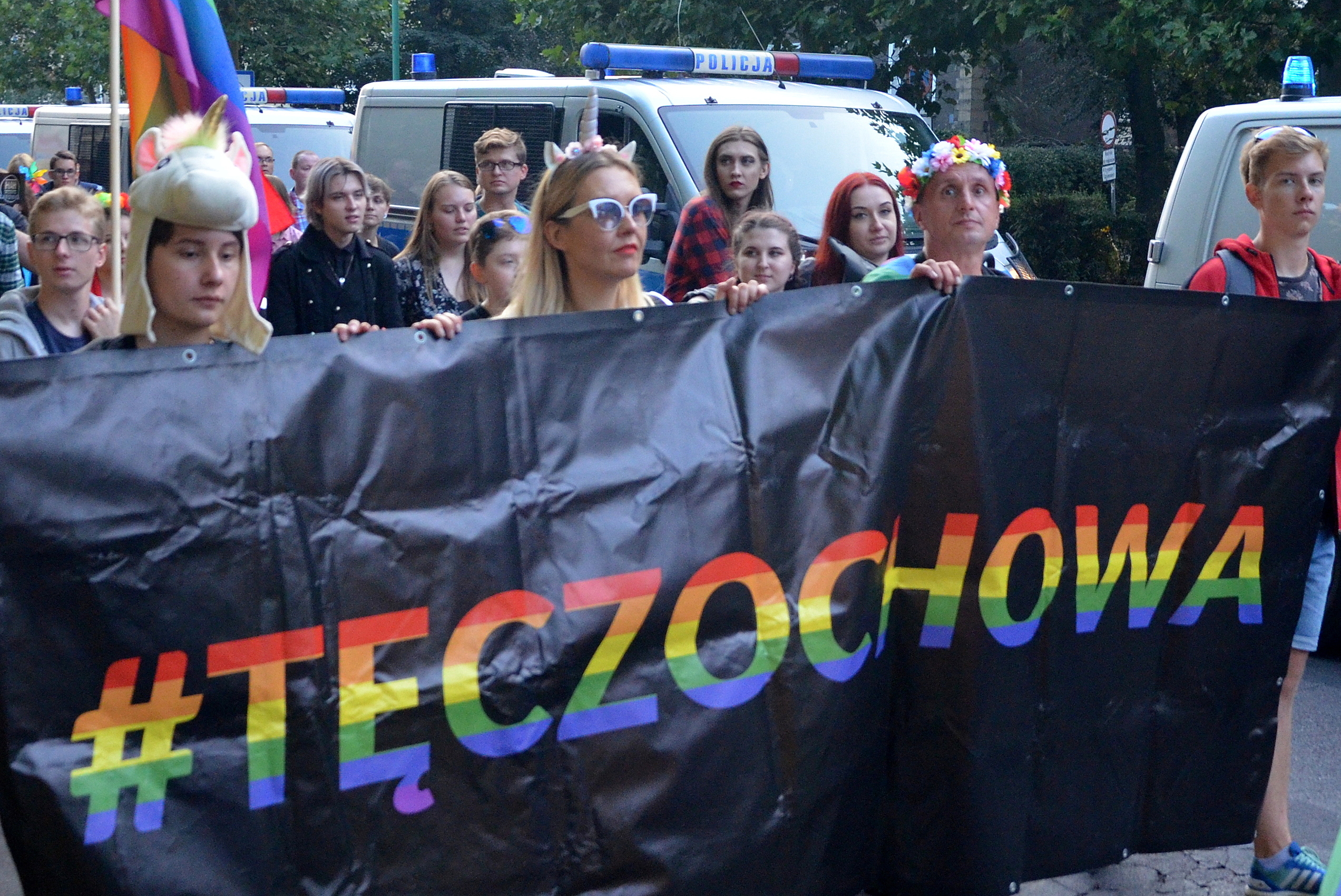 Marta Frej